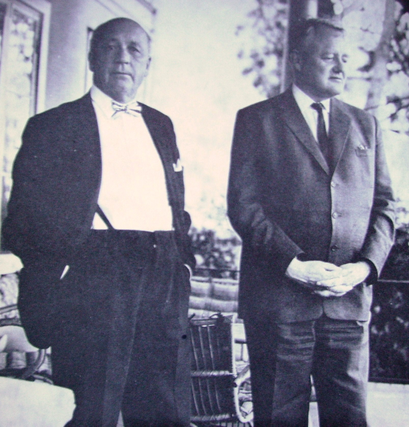 Picture of Ingmar Hedenius and Herbert Tingsten, Swedish intellectuals